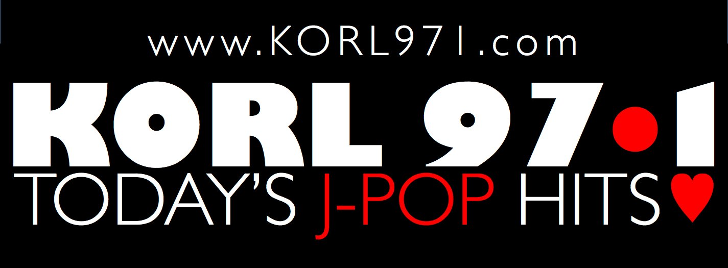 This was the Logo of KORL-HD4 & 97.1 K246BR-FM, used from December 12, 2011 until July 2, 2015, airing Japanese Pop under the "97.1 J-Pop" Branding.